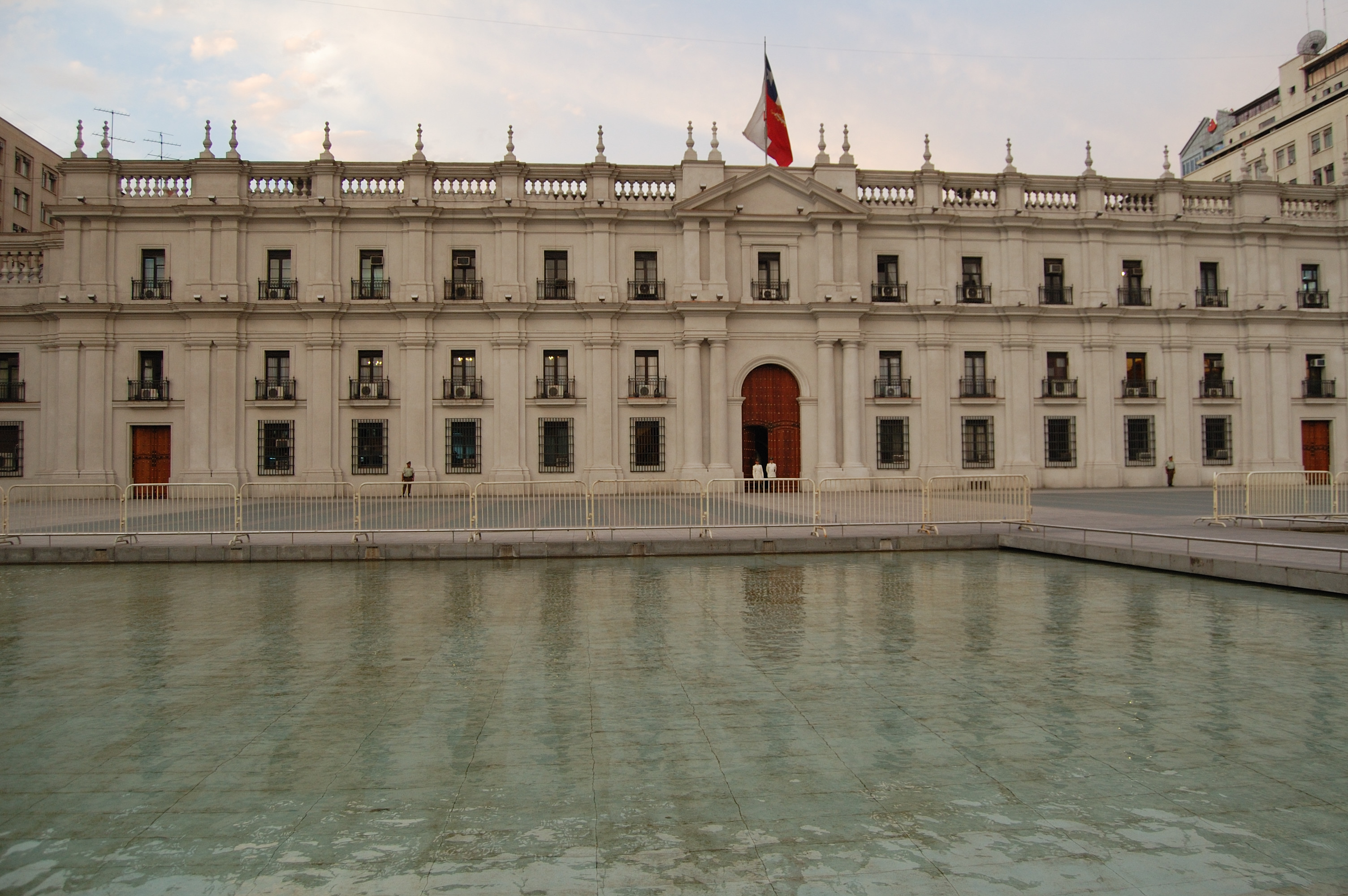 This is a photo of a national monument in Chile: 2017